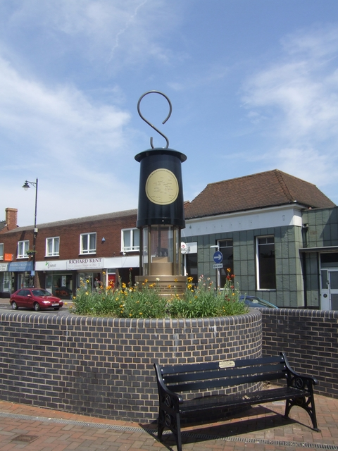 Mining memorial, Hednesford A memorial to the un-named persons including children who died in the mines of the Cannock Chase coalfield. Hednesford was a mining town in the heart of the coalfield. West Cannock No. 5 Pit closed on 17 December 1982 and the last pit on Cannock Chase, Littleton, closed in 1993.